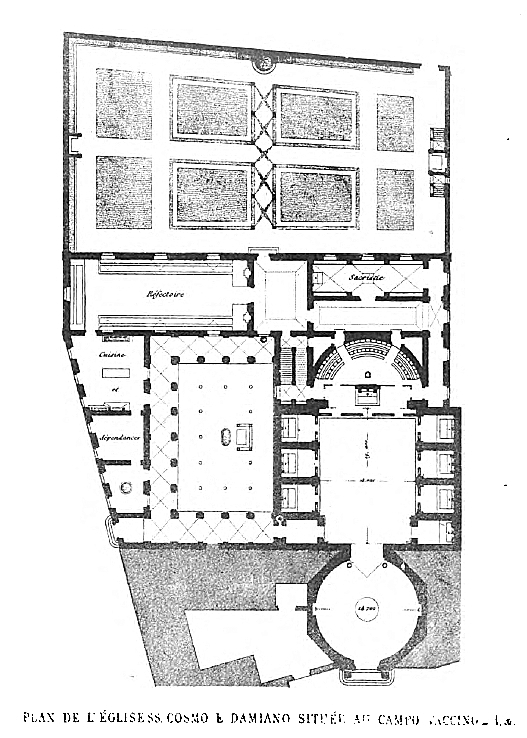 Plan of Basilica of SS. Cosma e Damiano, Forum, Rome